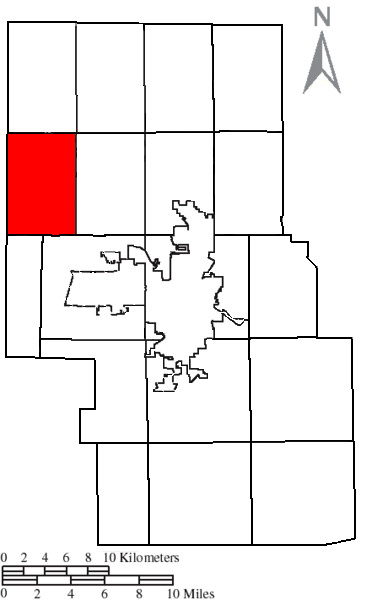 Made by the US Census and altered by myself to highlight the township